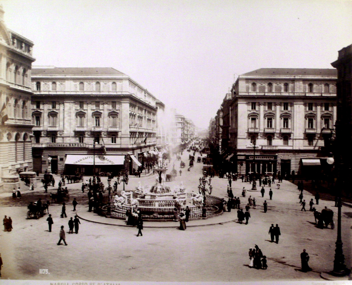 Giorgio Sommer (1834-1914), "Naples - Corso re d'Italia avenue". Catalogue # 1175.